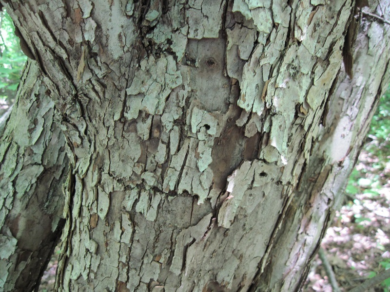 The bark of a Sweet Crabapple (Malus coronaria) tree in Hollis, New Hampshire.